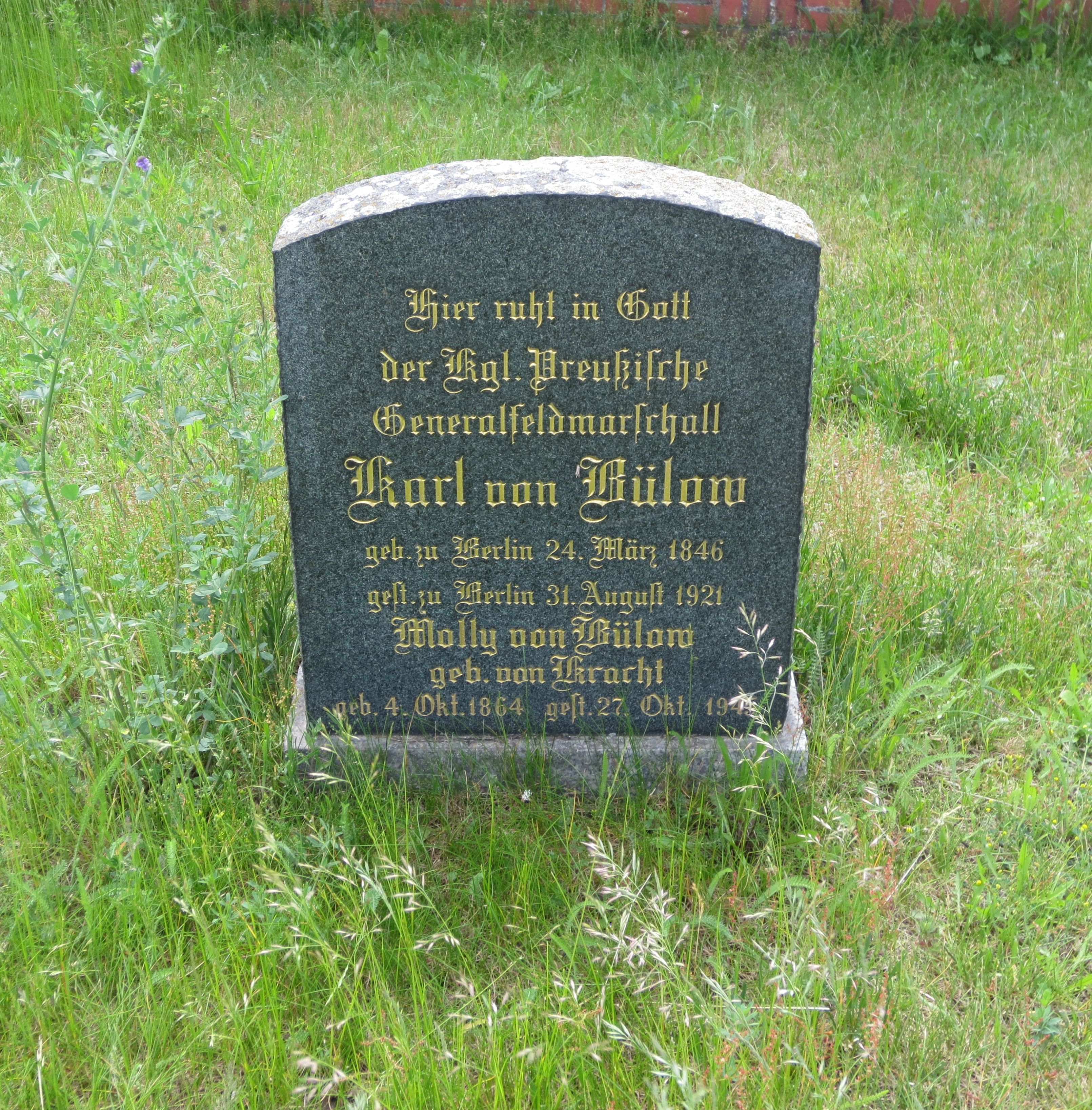 Grave of Field Marshal General Karl von Bülow (1846-1921) on the Invalidenfriedhof Cemetery, grave field F.